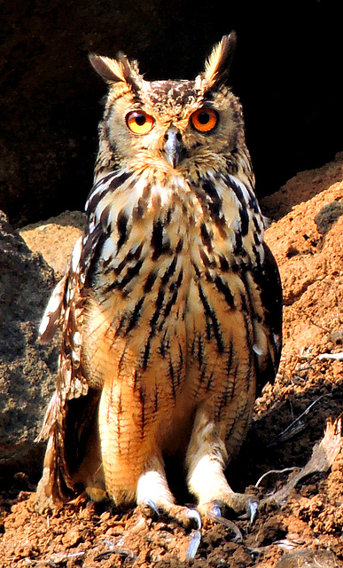 Indian eagle-owl (Bubo bengalensis) Photograph By Shantanu Kuveskar in Mangaon, Raigad, Maharashtra, India.